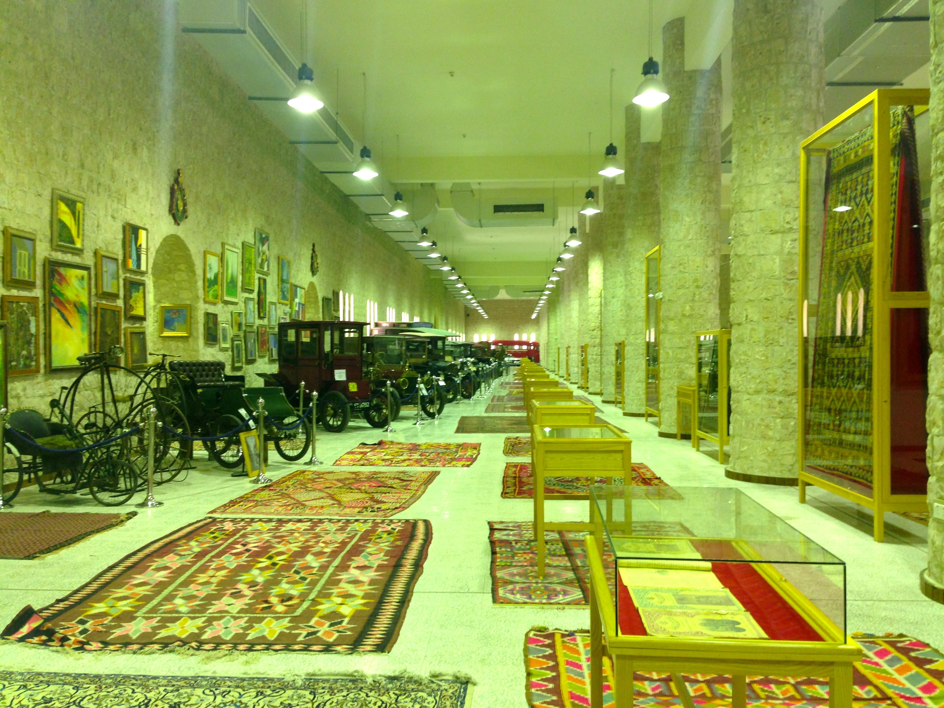 A collection of automobiles and artifacts in Sheikh Faisal Bin Qassim Museum.